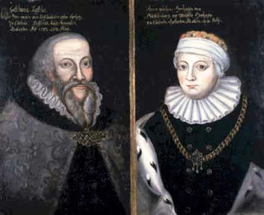 Gothard Kettler and Anna von Mecklenburg-Güstrow